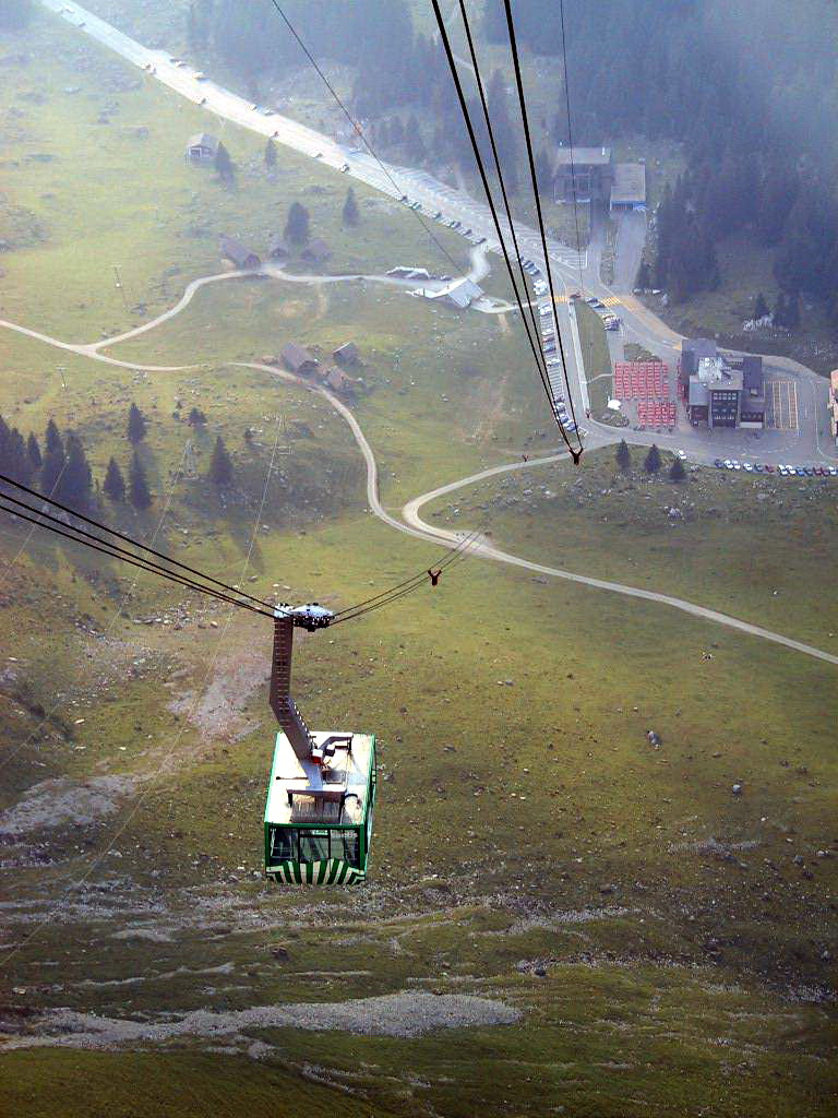 Zürich : Schwägalp : Säntis-cableways.